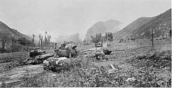 Tank action during the Battle of the Bowling Alley during the Korean War, 1950.